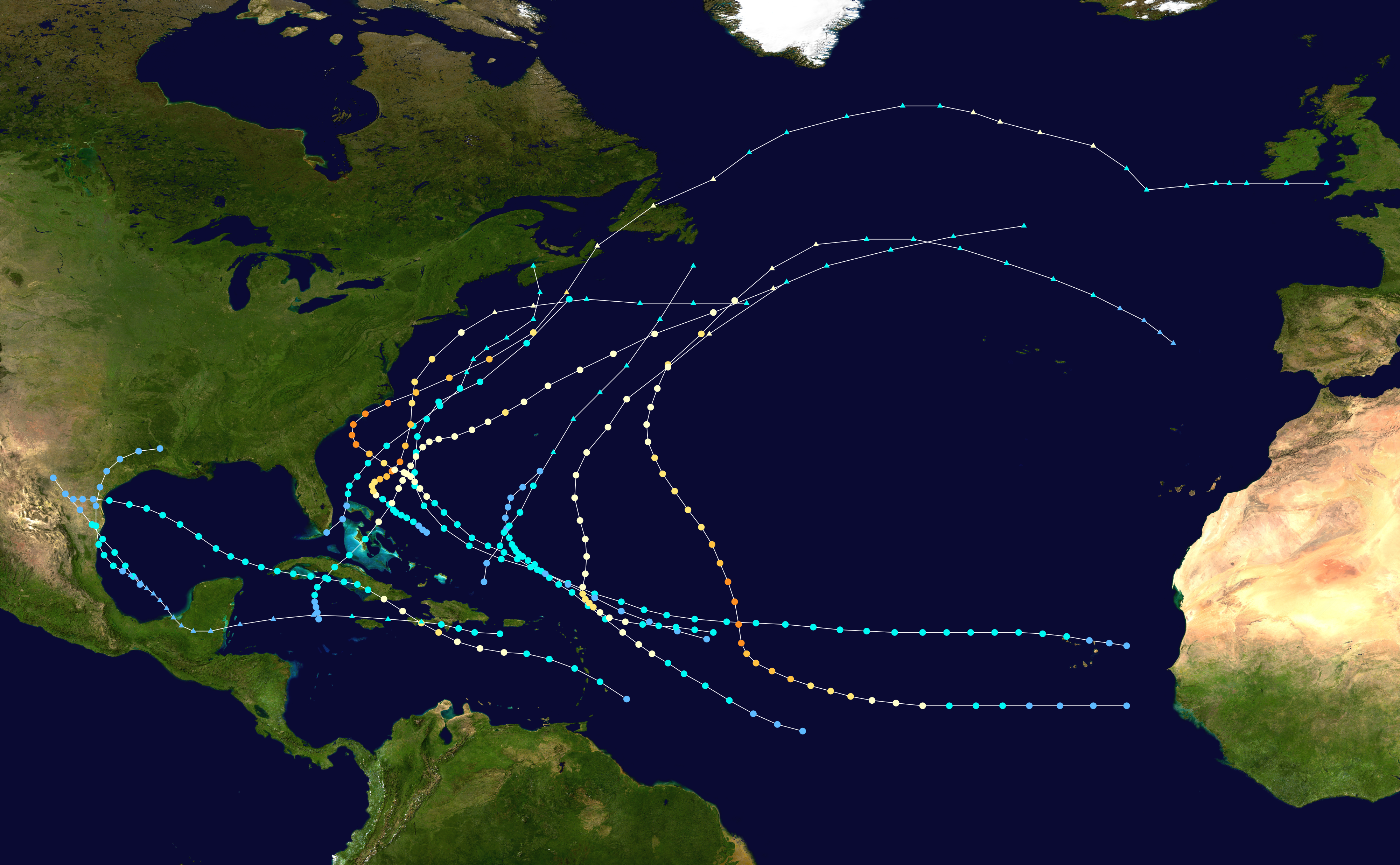 This map shows the tracks of all tropical cyclones in the 1958 Atlantic hurricane season. The points show the location of each storm at 6-hour intervals. The colour represents the storm's maximum sustained wind speeds as classified in the Saffir-Simpson Hurricane Scale (see below), and the shape of the data points represent the type of the storm. Saffir–Simpson hurricane wind scale Tropical depression≤38 mph≤62 km/h Category 3111–129 mph178–208 km/h Tropical storm39–73 mph63–118 km/h Category 4130–156 mph209–251 km/h Category 174–95 mph119–153 km/h Category 5≥157 mph≥252 km/h Category 296–110 mph154–177 km/h Unknown Storm typeTropical cycloneSubtropical cycloneExtratropical cyclone / Remnant low / Tropical disturbance